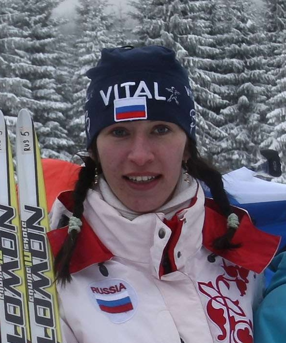 Anastasia Kravchenko at European Ski-Orienteering Championship 2010, (8th - 15th February, 2010; Miercurea Ciuc, Romania)